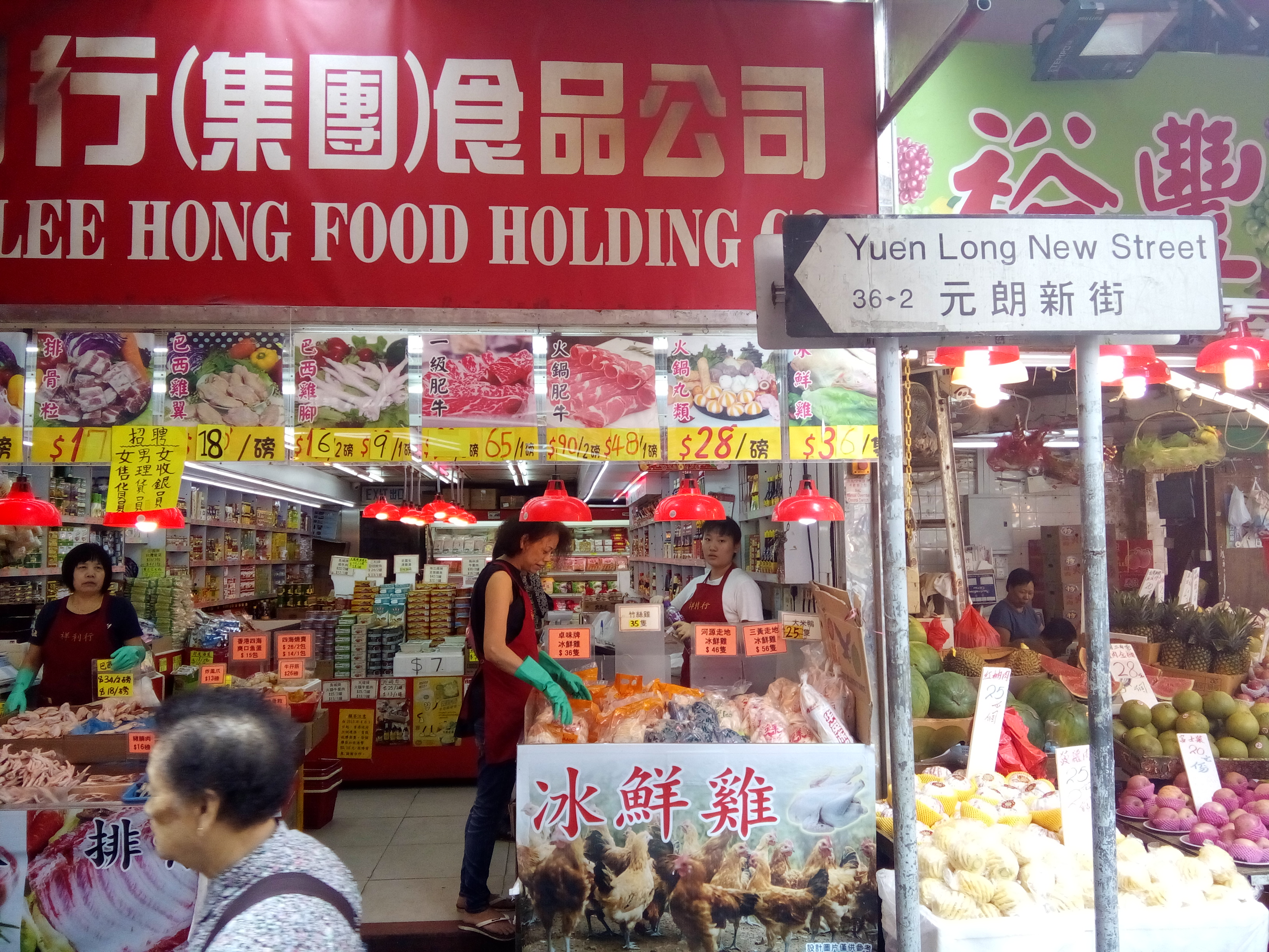 HK 元朗新街 Yuen Long New Street market zone sidewalk shop n food display for sale in October 2016